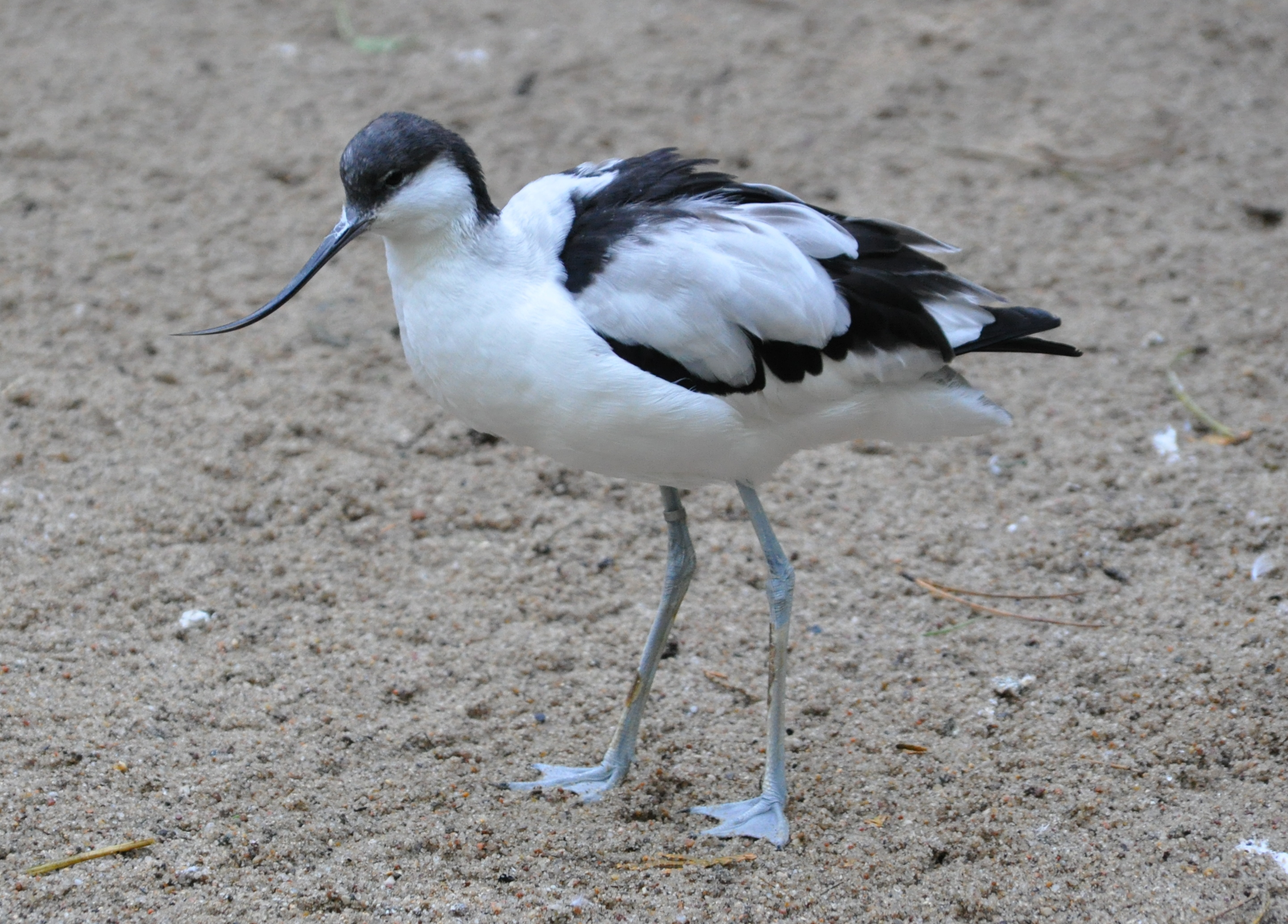 Pied Avocet (Recurvirostra avosetta) in the Walsrode Bird Park, Germany.